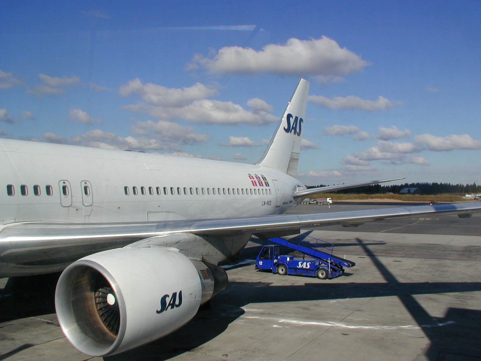 Scandinavian Airlines Boeing 767 at Oslo Airport, Gardermoen